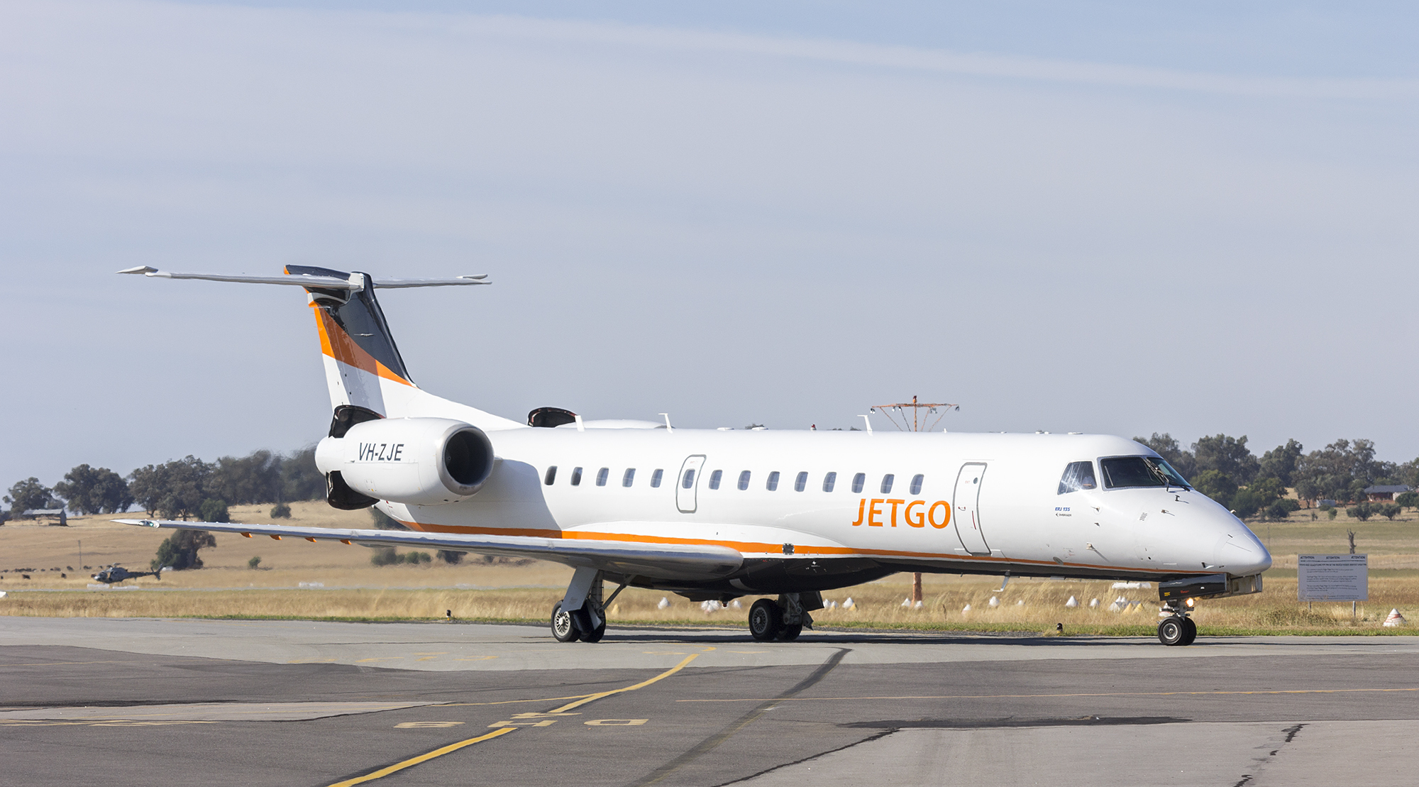 JetGo Australia (VH-ZJE) Embraer ERJ-140LR taxiing at Wagga Wagga Airport.